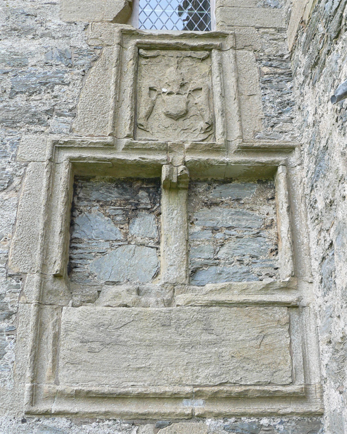 Scalloway Castle, Scalloway, Shetland, Scotland - panels above entrance